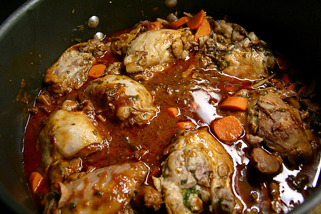 Coq au Van 10-29-09 IMG_9331